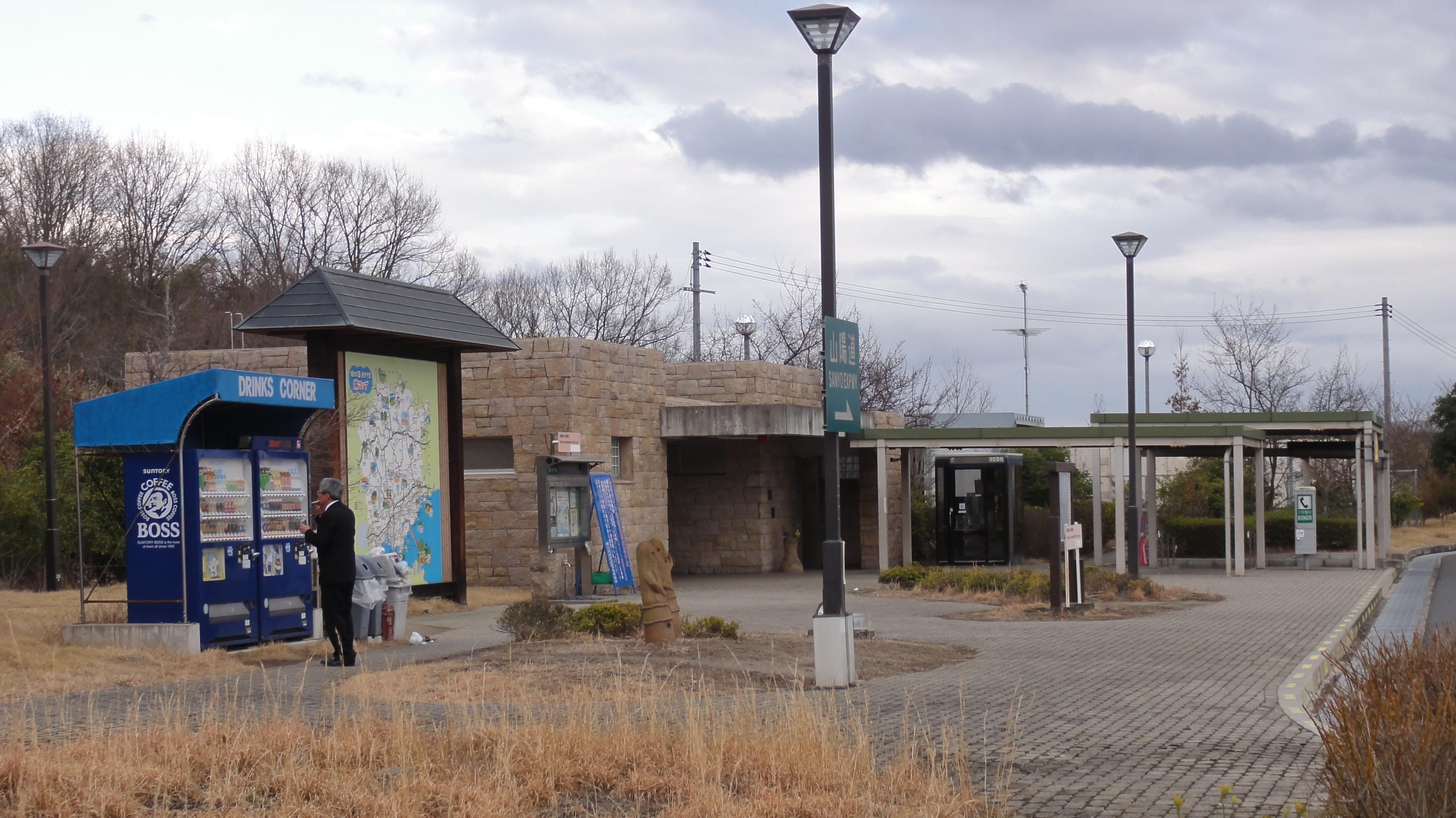 Soja Paking Area,Okayama prefecture, Japan